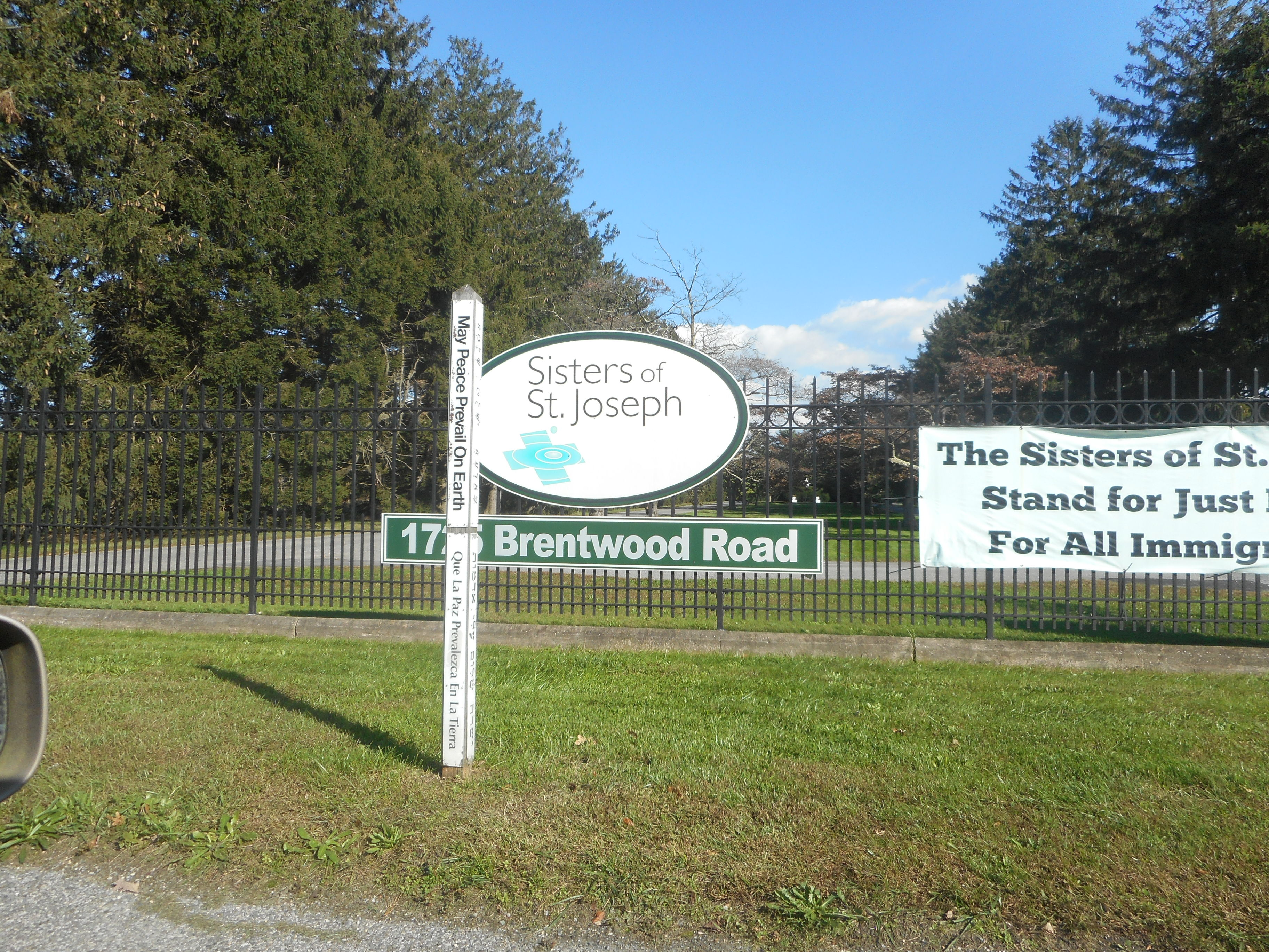 The front gate to the Sisters of St Joseph Motherhouse on Brentwood Road in Brentwood, New York. I tried to get more of the facility, but all I was able to get was the gate.